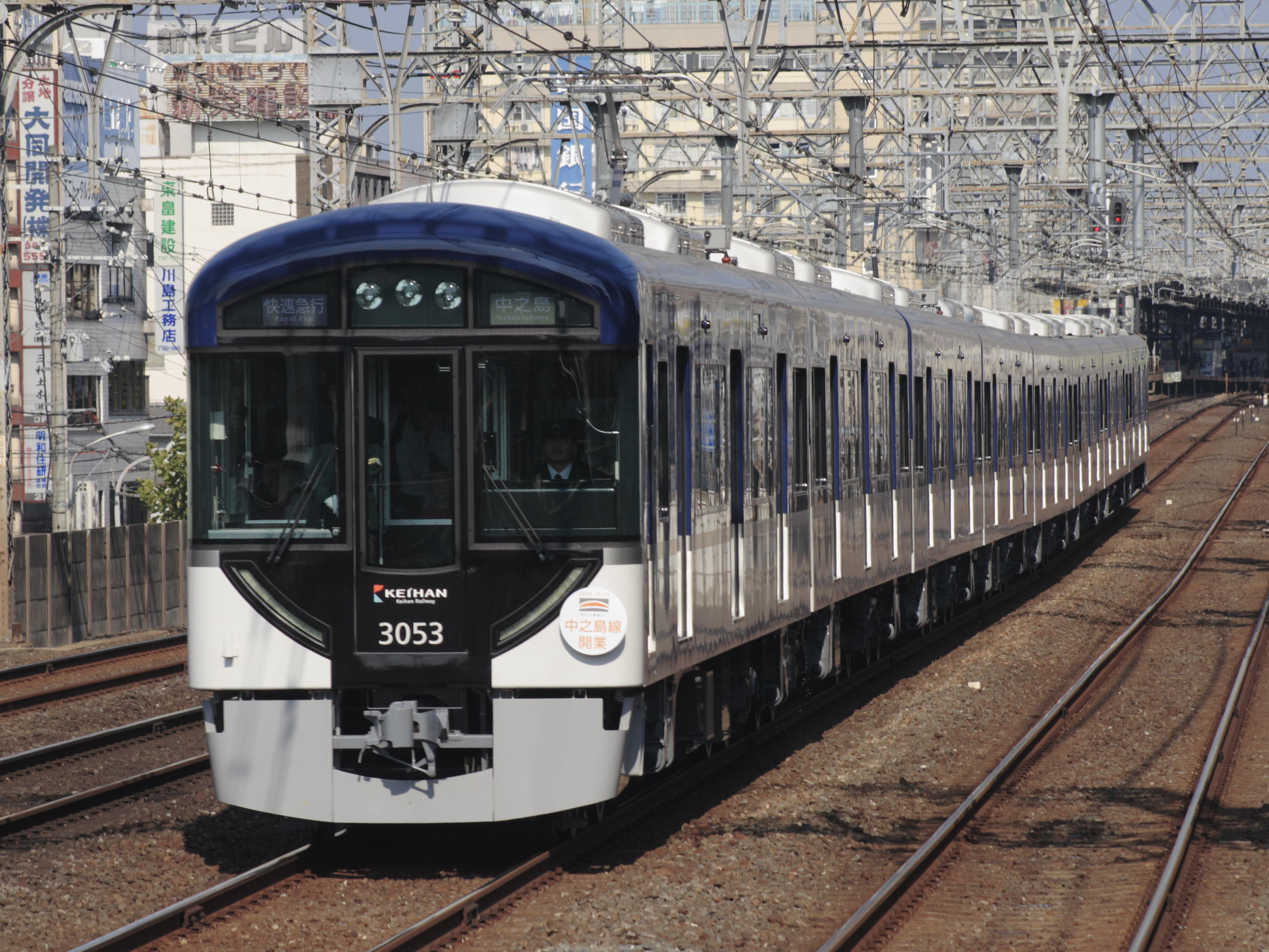 Keihan 3000 Confort Saloon Rapidexpress